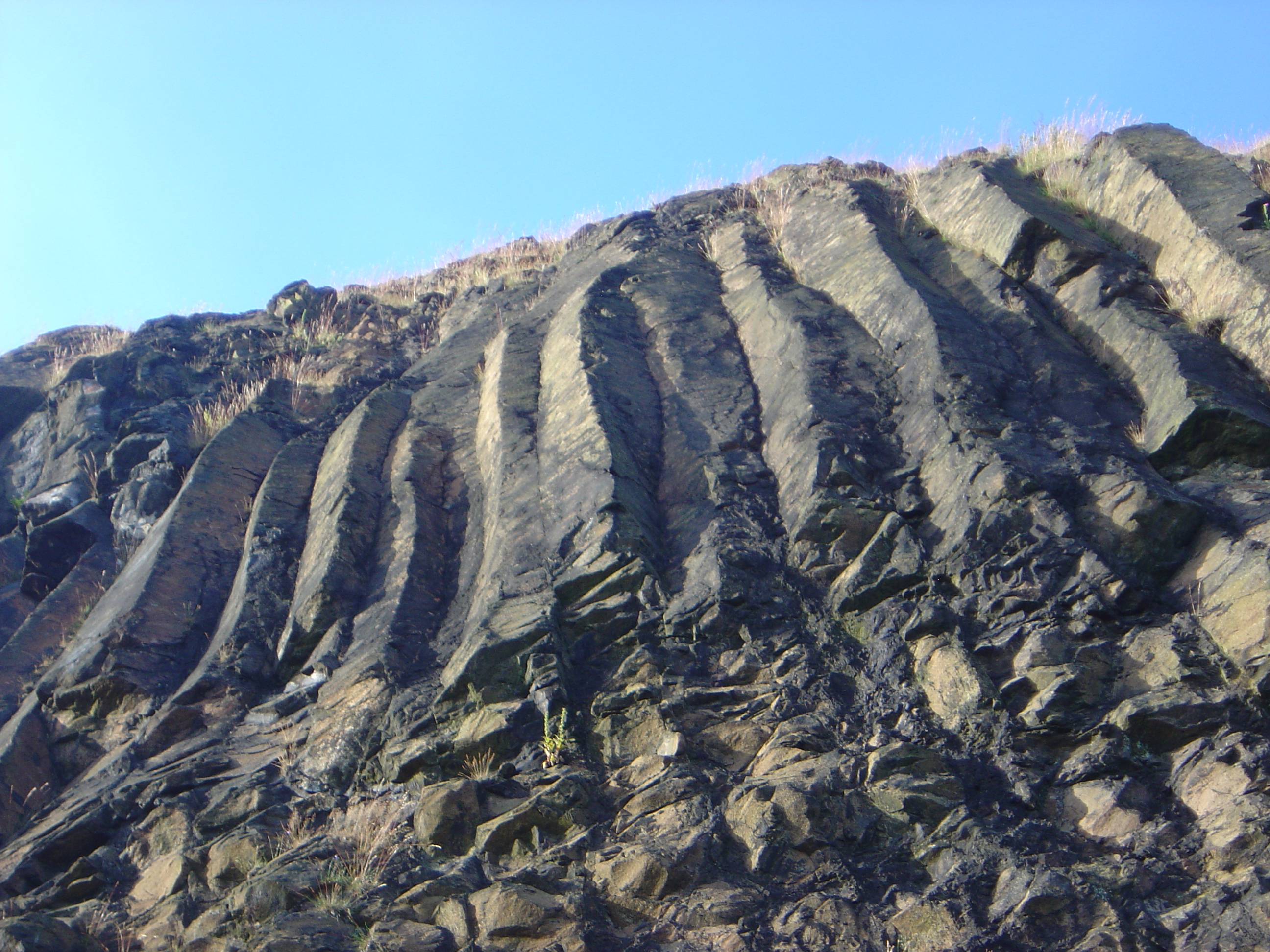 Holyrood Park, Samson's ribs basaltic prisms